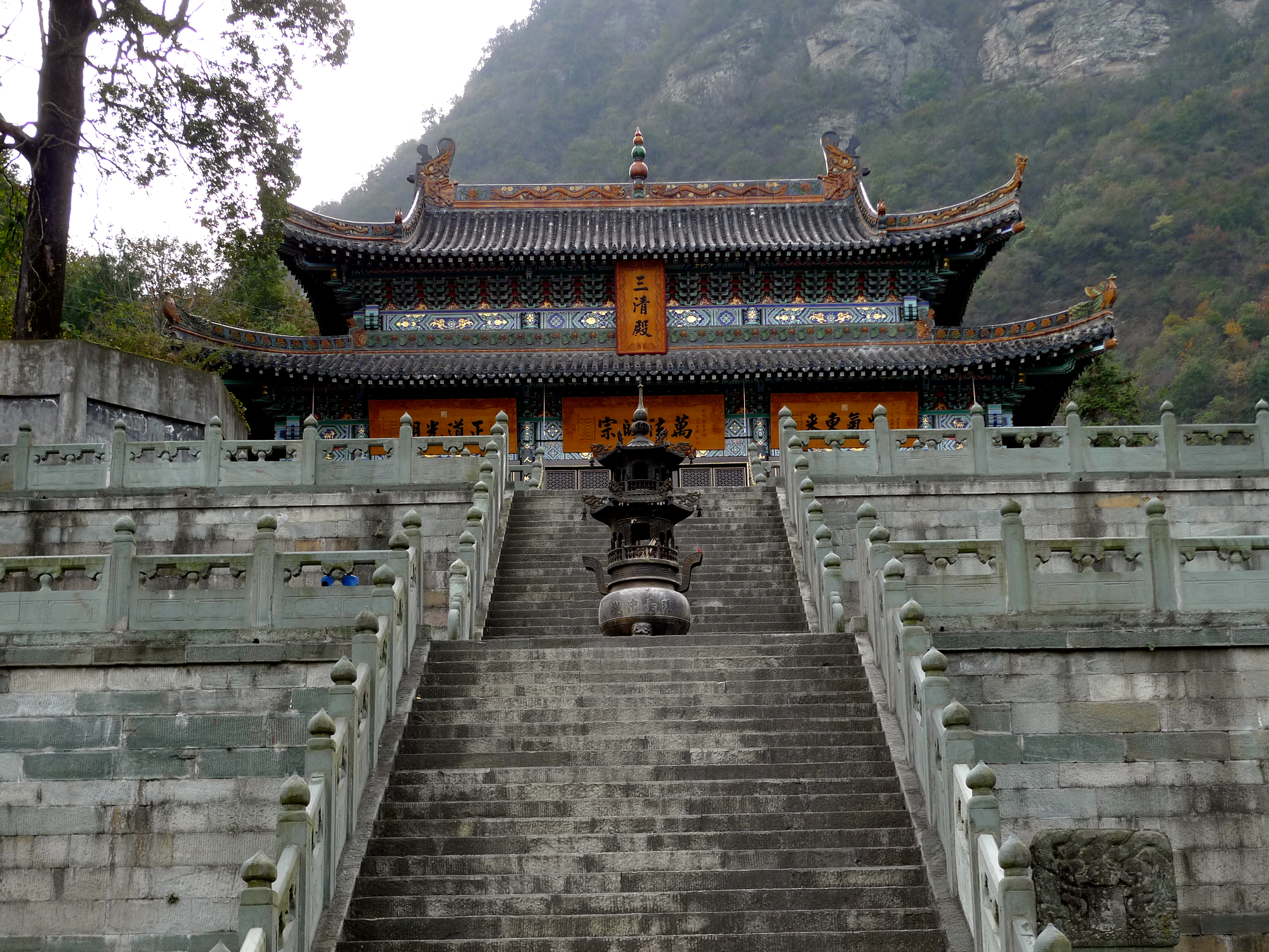 Trinity Hall in Wudang Mountains